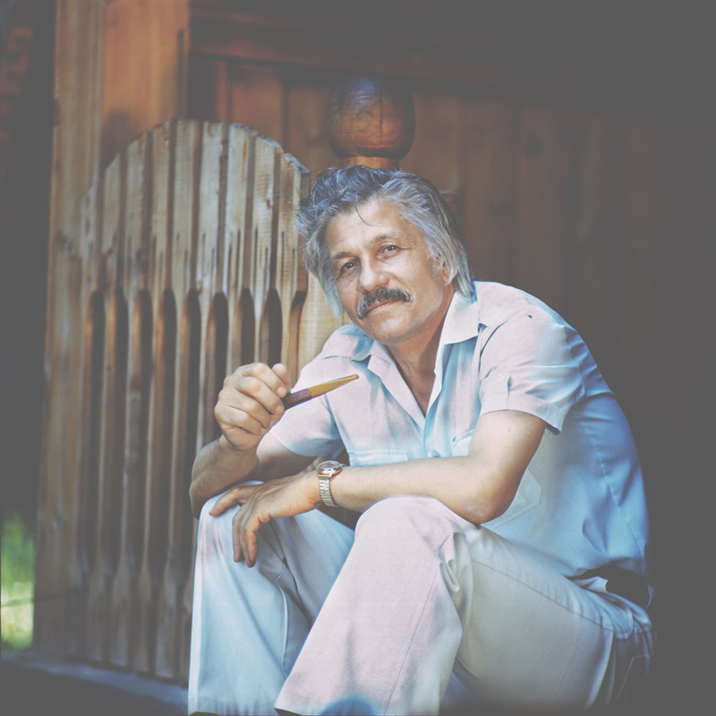 "Uncle Mihai" (80th years).